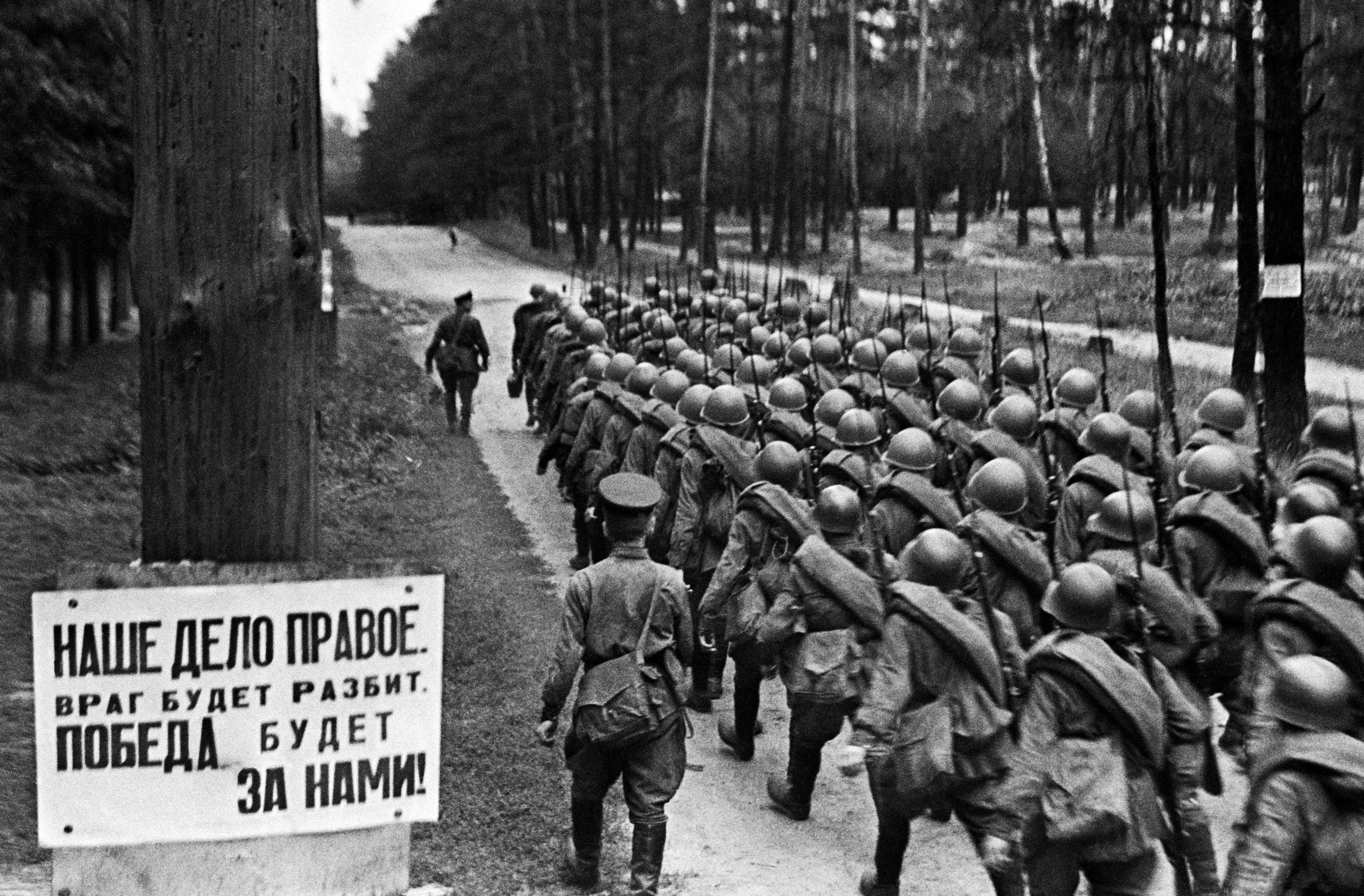 Recruits leaving for the front during mobilization, Moscow.